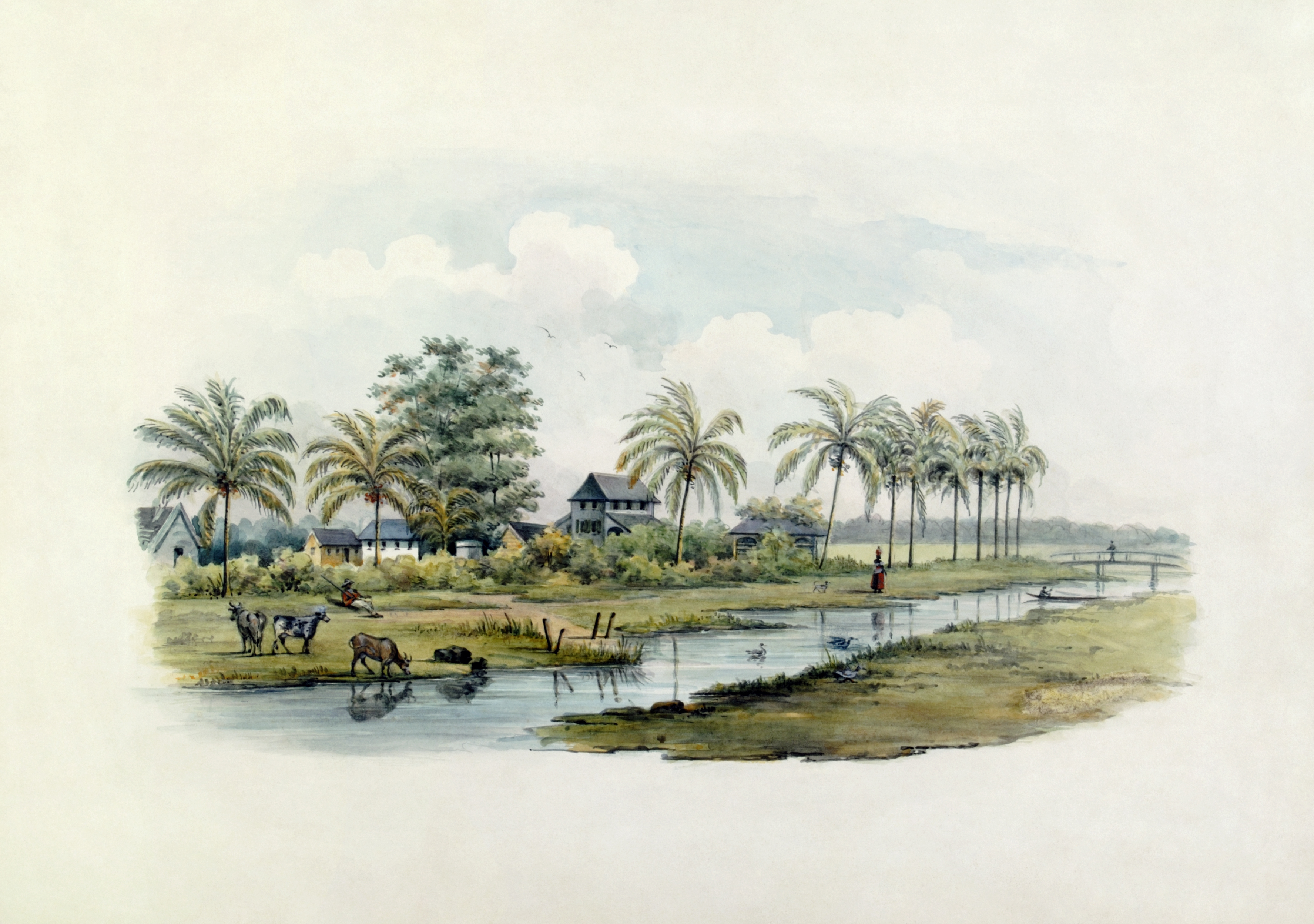 Water colour. On the river is tha Moy plantation, in the district of Coronie. The view in on the houses of the people living on the plantation. In the front aminals are drinking, en to the right an overseeer is resting with his gun. A female slave is walking with goods on her head. In the water is a korjaal. The district of Coronie, named after the Corona creek, became an independent district in 1851. The first plantations were founded in 1808 by English and Scots, the names of the plantations still point to this. It was the only districts with plantations facing the sea coast. The most important products were sugar and cotton, although the sugar plantations would gradually make place for cotton. Riverside with buildings of a cotton plantation in the background.